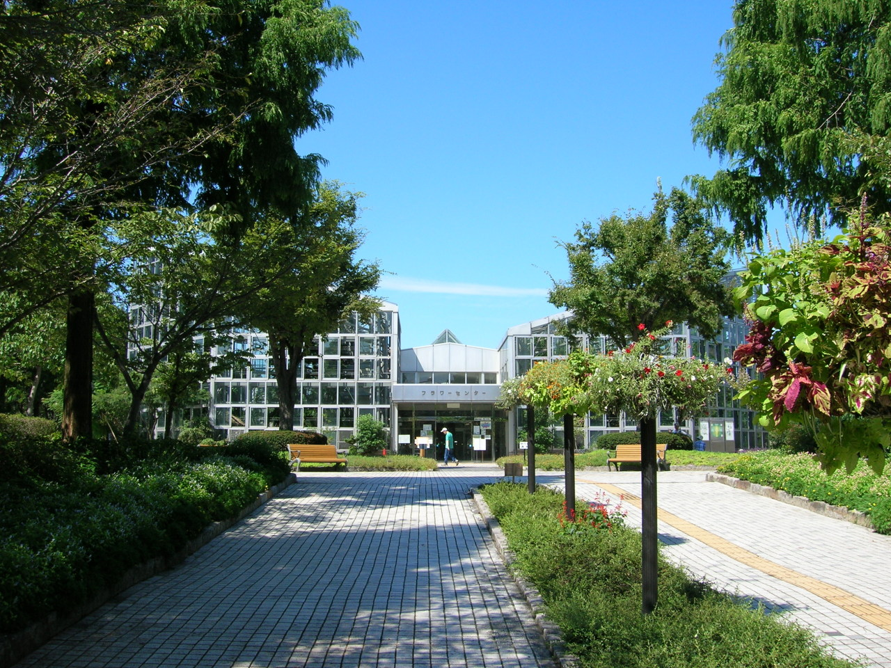 Nagoya-shi Nougyou-bunkaen. (Nagoya city Agriculture park, Flower center (Greenhouse). Loc: Todagawa Ryokuchi, Minato-ku, Nagoya city, Aichi Prefecture, Japan.